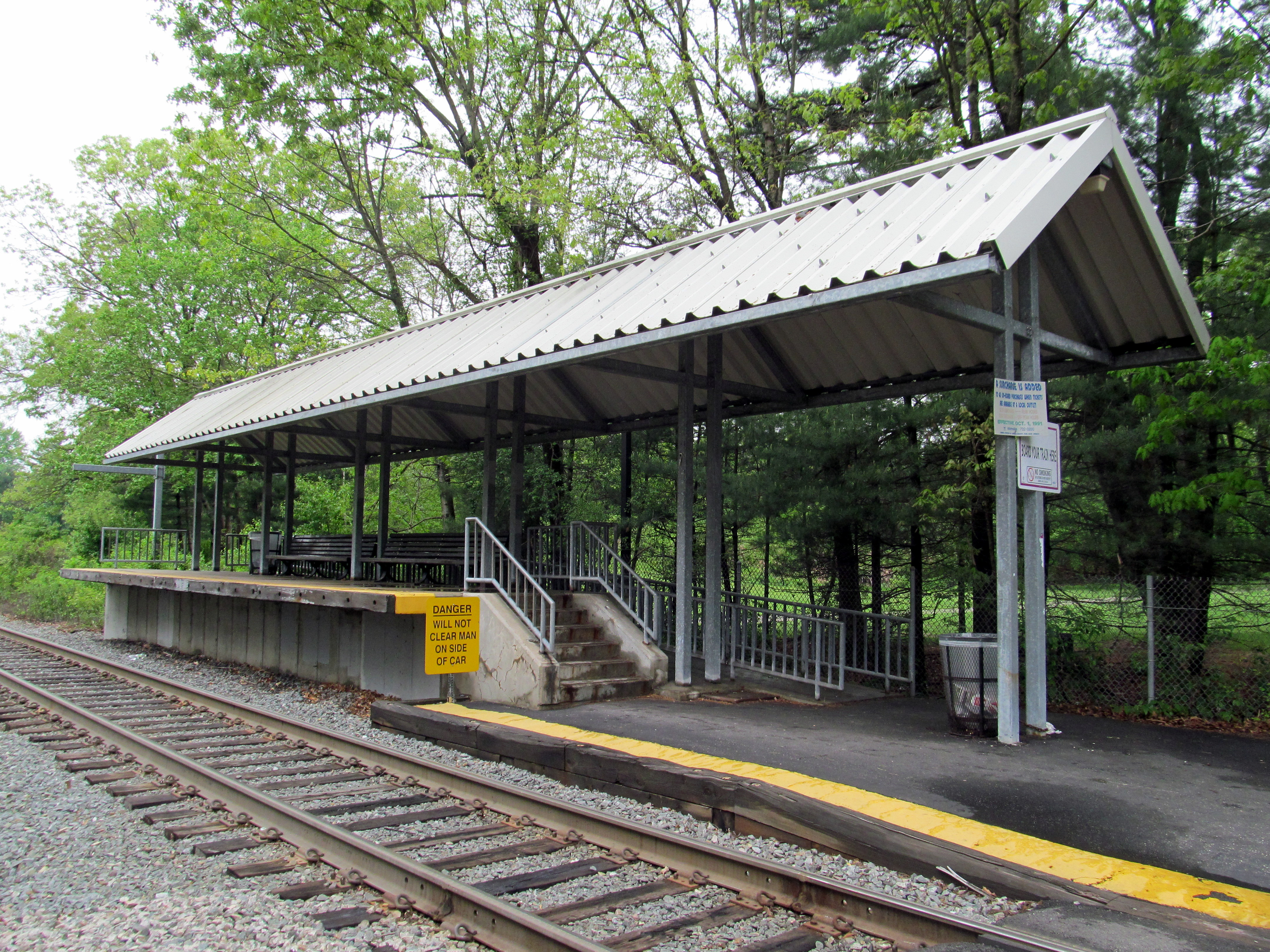 Mini-high platform at Hersey station in May 2012